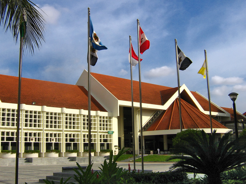 Raffles Institution Campus (Raffles Square and Admin Block) in the light of the afternoon.